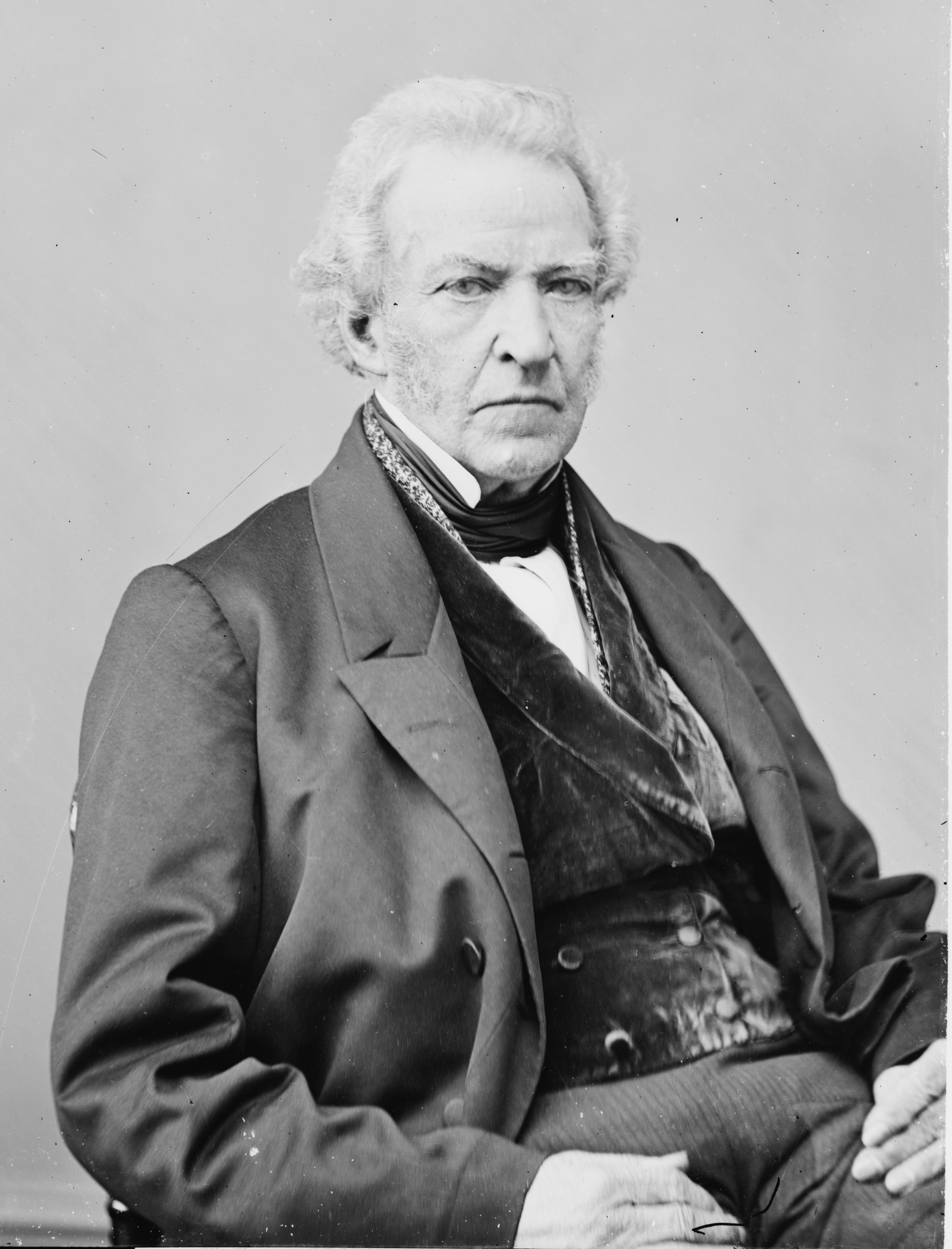 James Moore Wayne. Library of Congress description: "Judge J. M. Wayne".